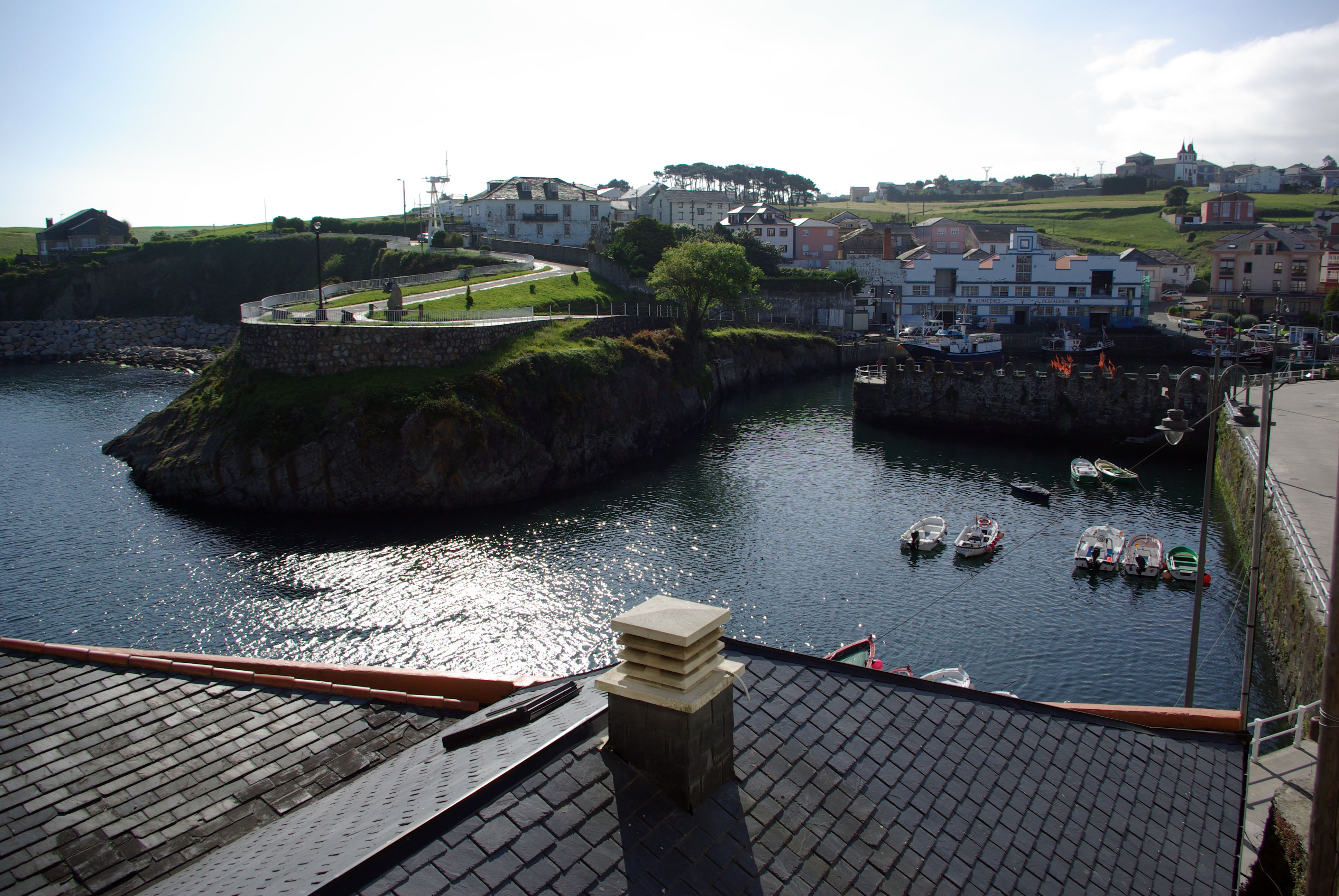 Puerto de Vega's harbor, Navia (Asturias, Spain)